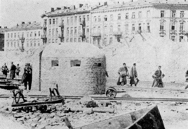 Warsaw Uprising: Bunkers of Warsaw Ghetto at Muranowska Street